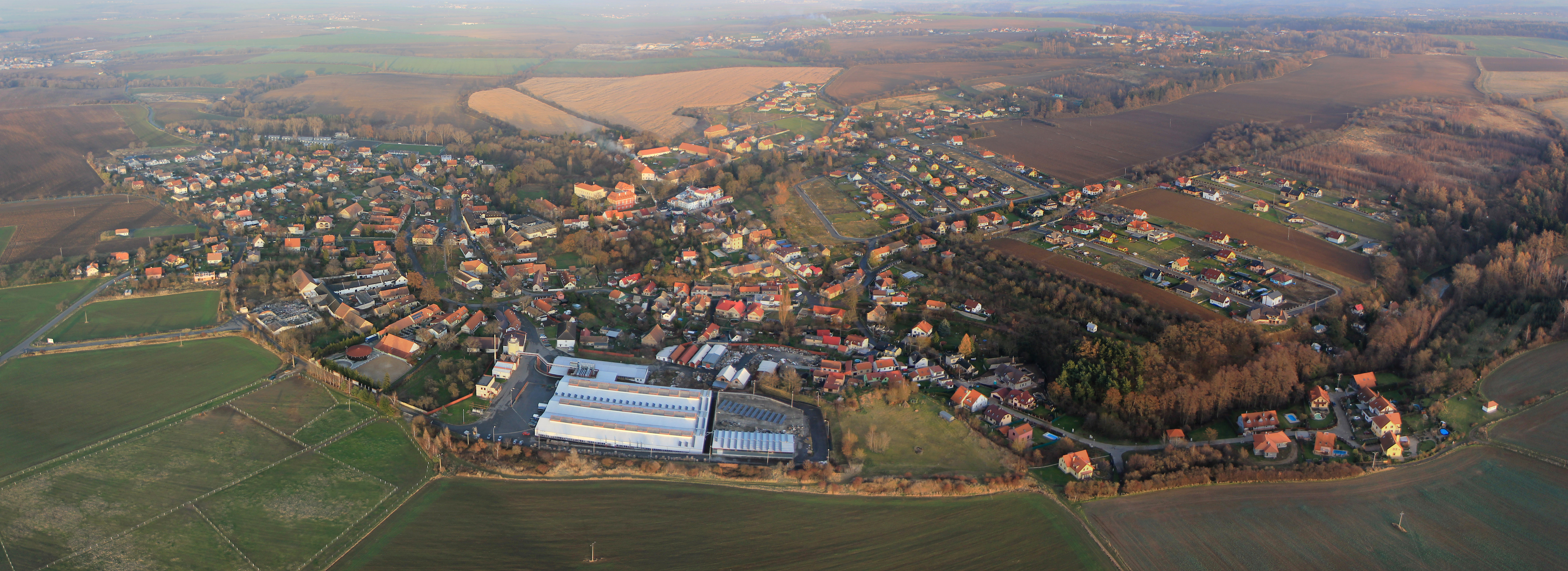 Skvorec